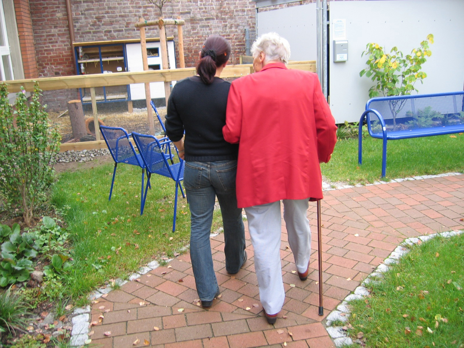 Old woman is walking with help